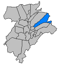 Map of Luxembourg City, Luxembourg, with the boundaries of the city's twenty-four quarters demarcated and the quarter of Neudorf-Weimershof highlighted in blue.